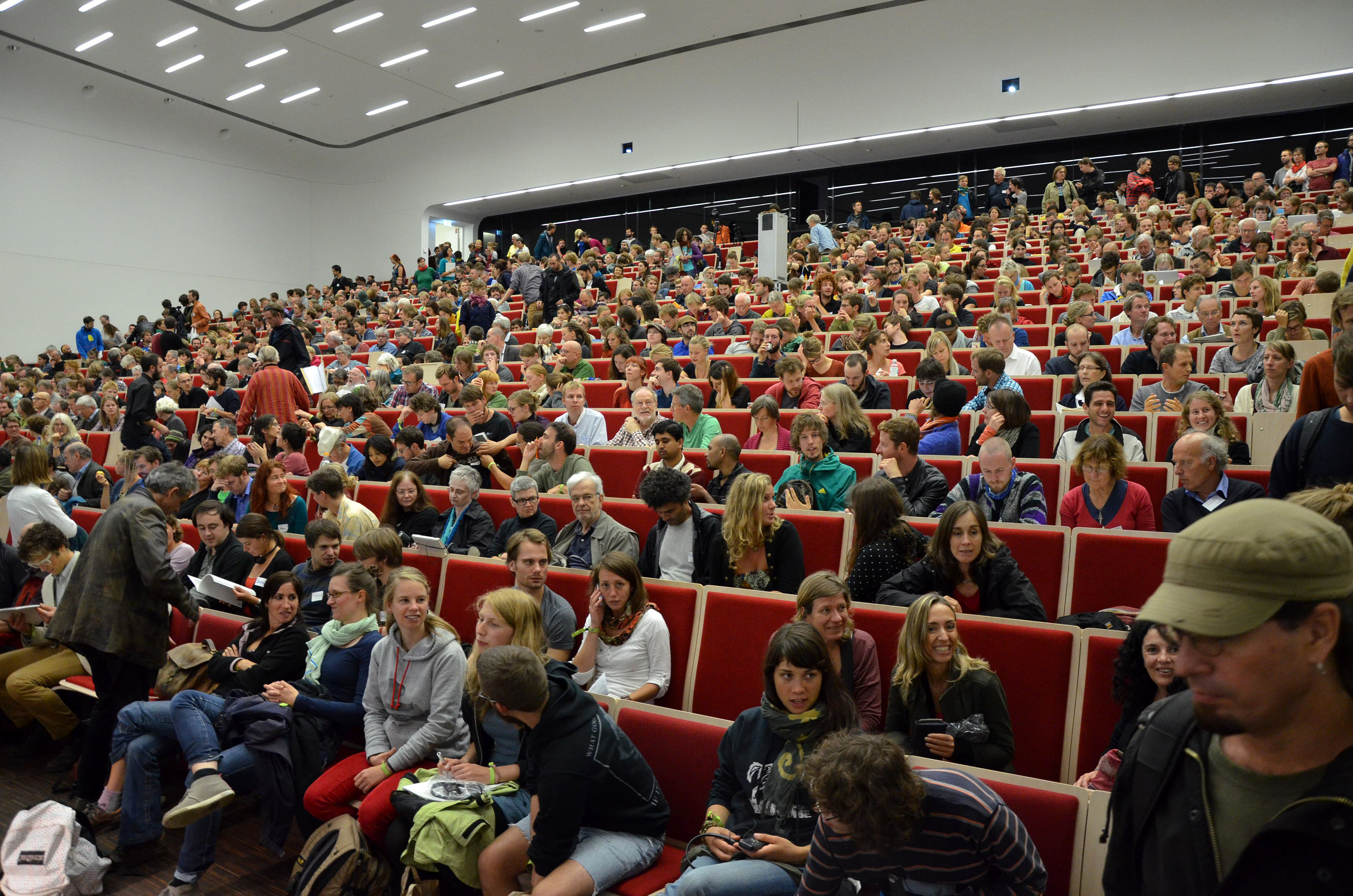 Audimax of Leipzig University, 4th International Conference on Degrowth, Leipzig, 2014.